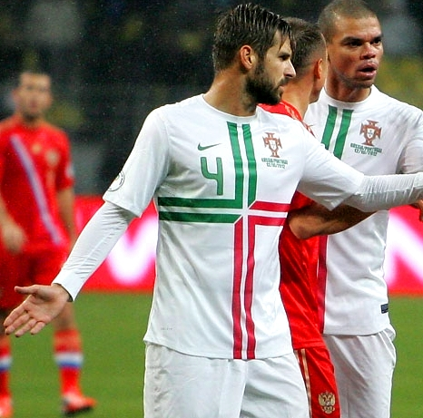 Miguel Veloso